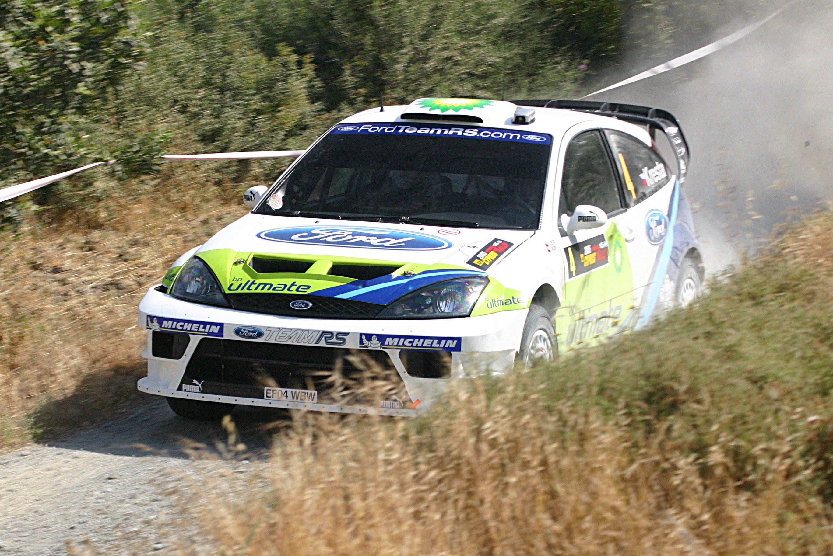 Roman Kresta driving his Ford Focus WRC at the 2005 Cyprus Rally.